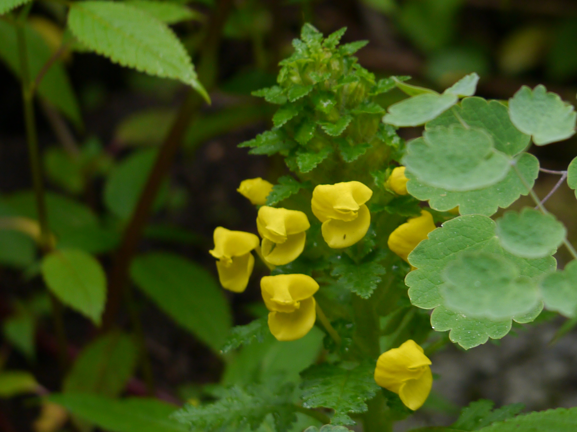 Pedicularis hoffmeisteri